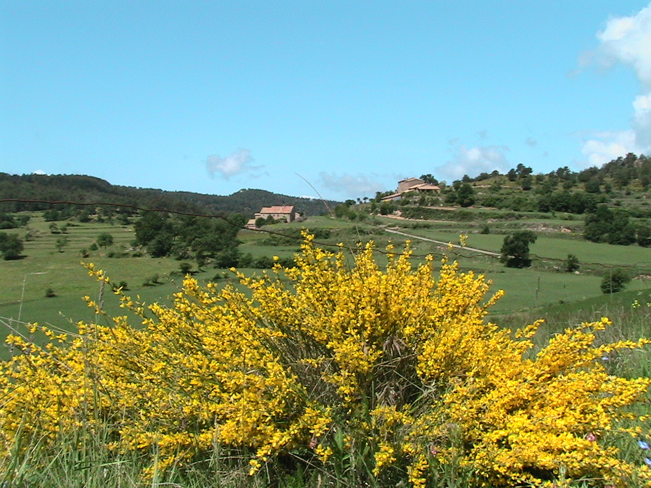 Cytisus oromediterraneus. In Capolat (Berguedà-Catalunya). To 1.260 m. altitude